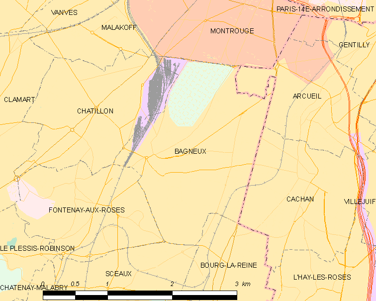 Map of French municipality Bagneux